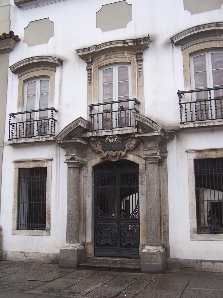 Main portal of the Paço Imperial in Rio de Janeiro, Brazil